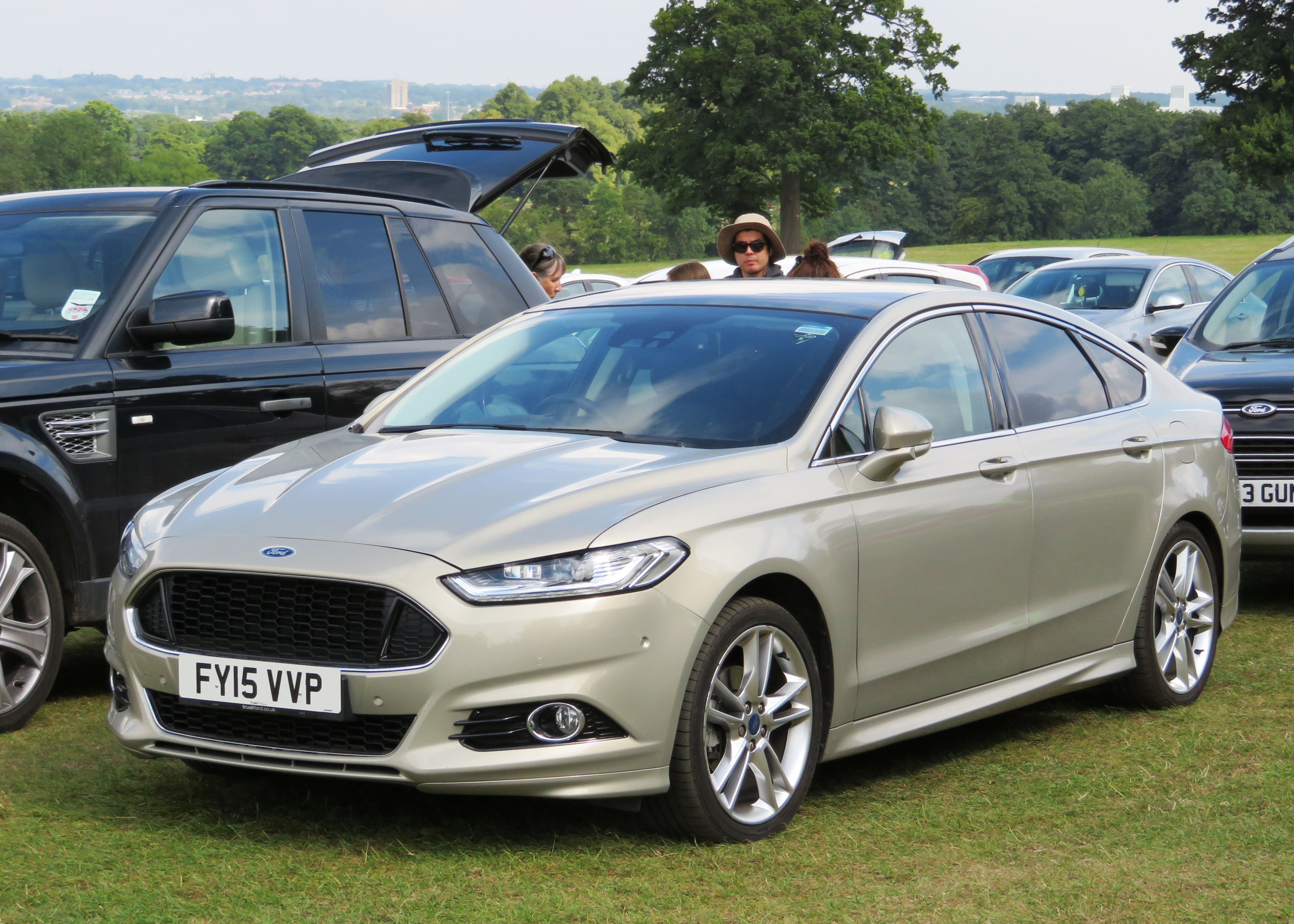 Ford Mondeo (2015) photographed in Hertfordshire (2016)